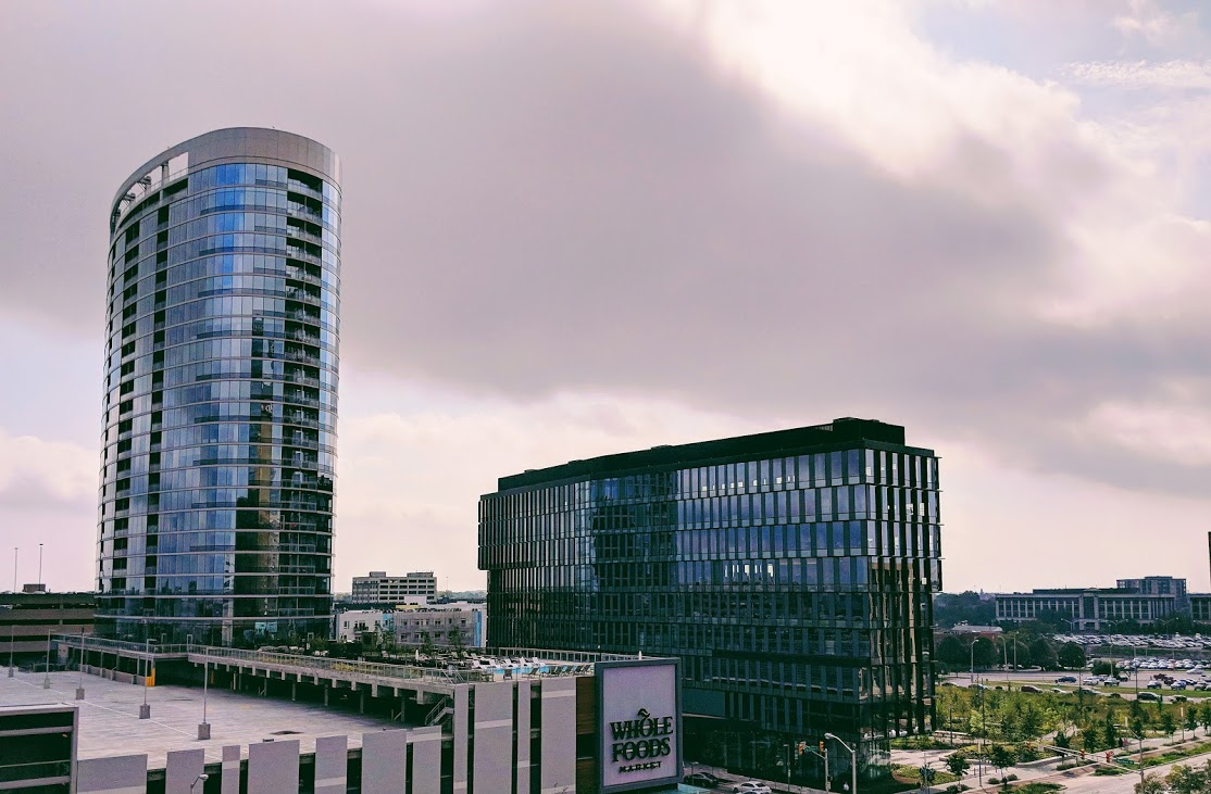 To the right, the completed 360 Market Square apartment tower, and to the left the Cummins Indianapolis distribution headquarters.